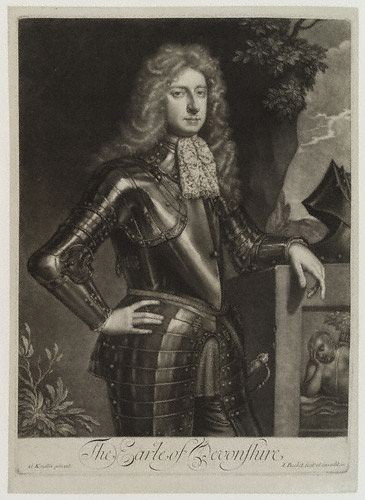 mezzotint, (circa 1680-1685) 13 1/4 in. x 9 3/4 in. (337 mm x 249 mm) plate size; 14 1/8 in. x 10 3/8 in. (359 mm x 262 mm) paper size Given by Sir Herbert Henry Raphael, 1st Bt, 1916